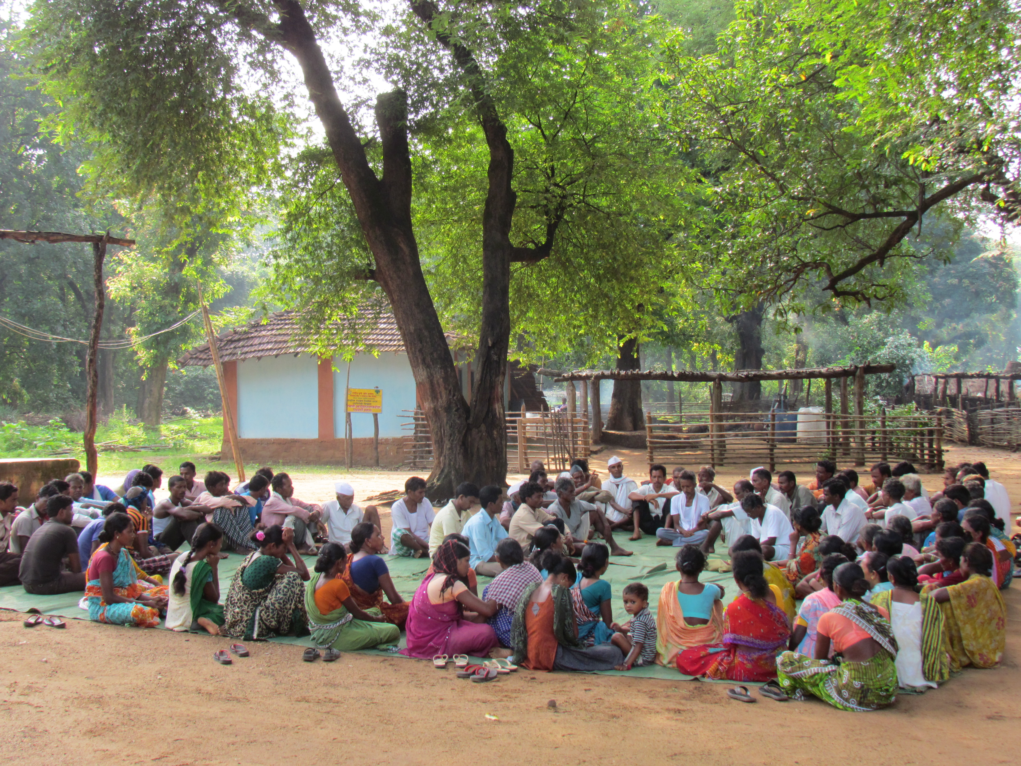 Village assembly in Mendha(Lekha), Block Dhanora, Dist, Gadchiroli, Maharashtra, India